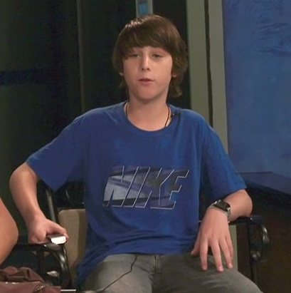 Sterling Beaumon in San Diego talking about the movie Mostly Ghostly on a KUSI TV news station in San Diego.